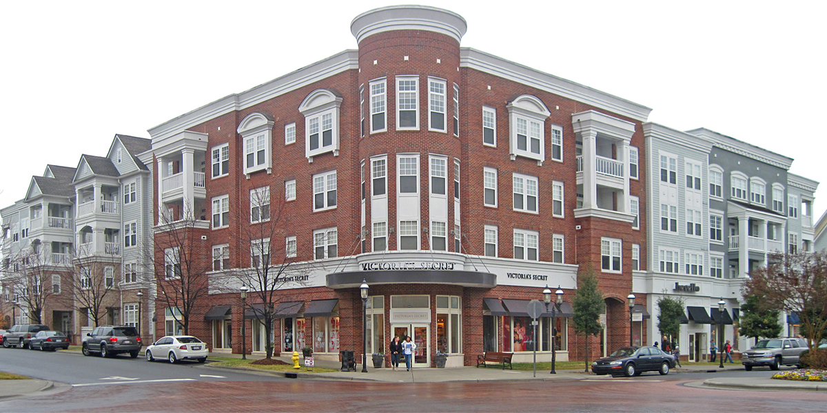 A mixed-use development where Lifestyle center is evolving into town center. This work is licensed under a Creative Commons Attribution 3.0 United States License